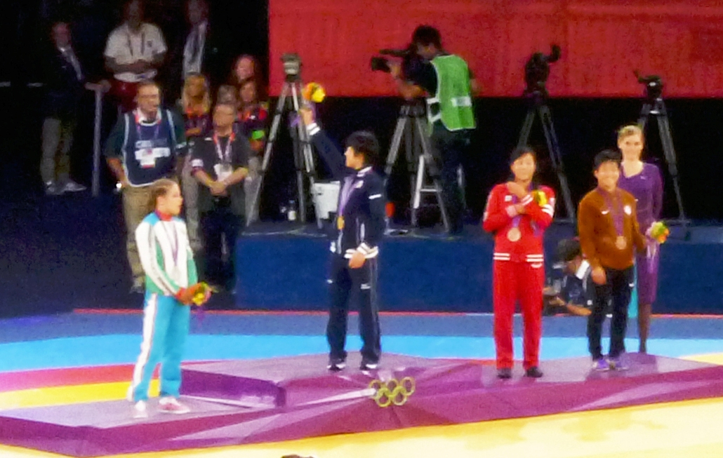 Medalists at the London 2012 Olympics Women's Freestyle Wrestling (48 kg): Obara, Stadnyk, Huynh, Chun